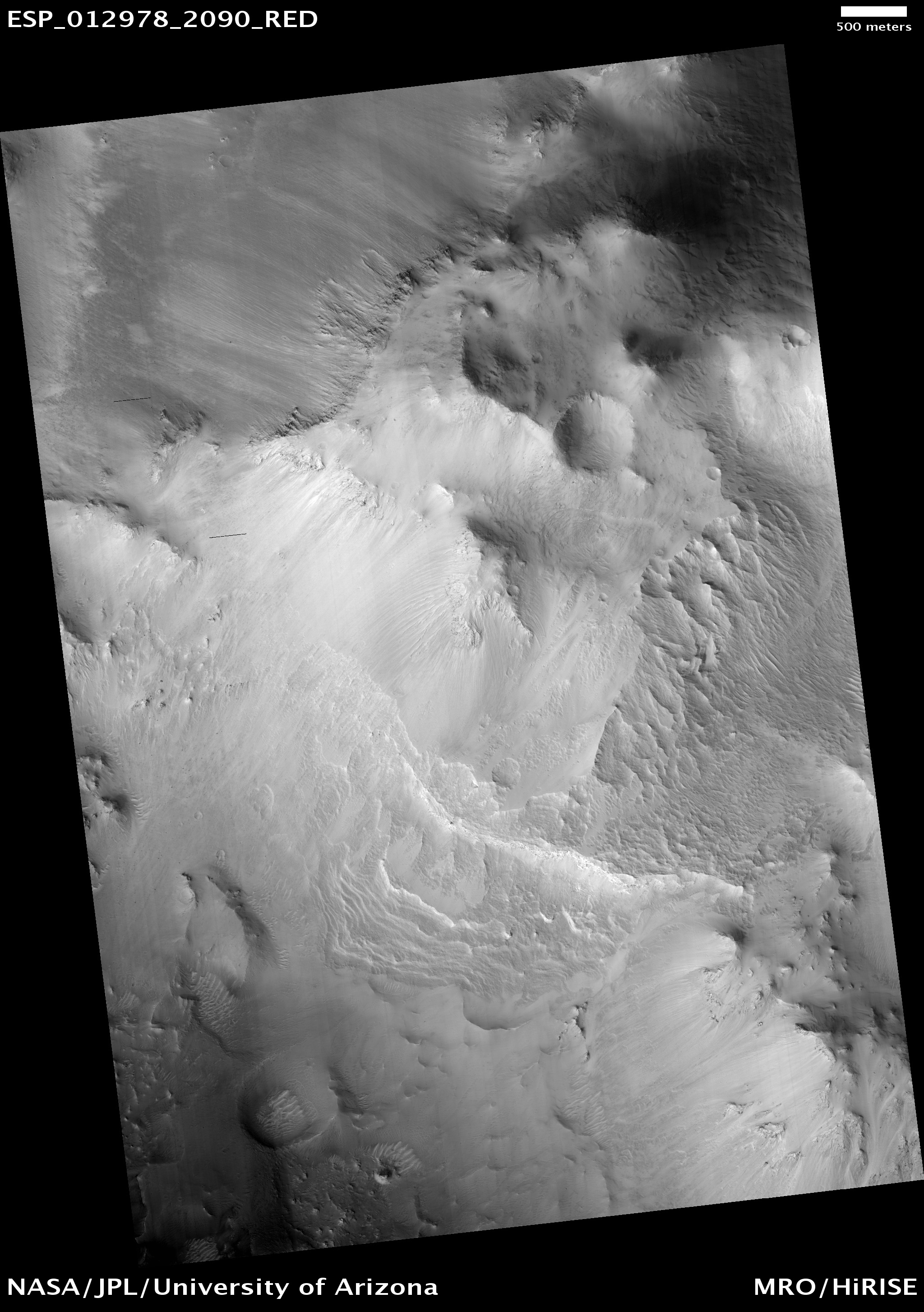 Curie Crater, as seen by hirise. Location is 28.8 N and 355.3 E.